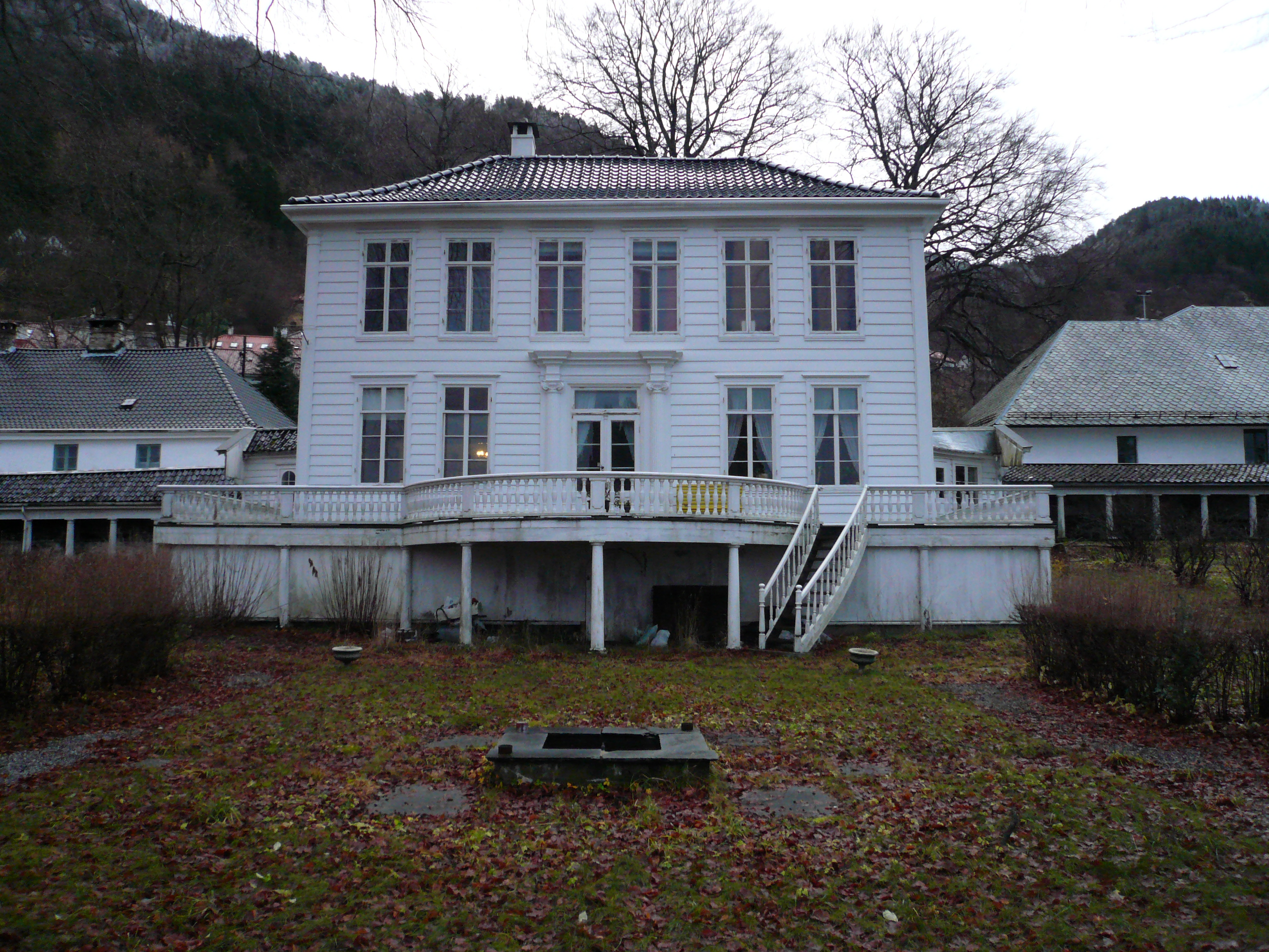 Christinegård main facade. Building from 1836 in Sandviken, Bergen, Norway